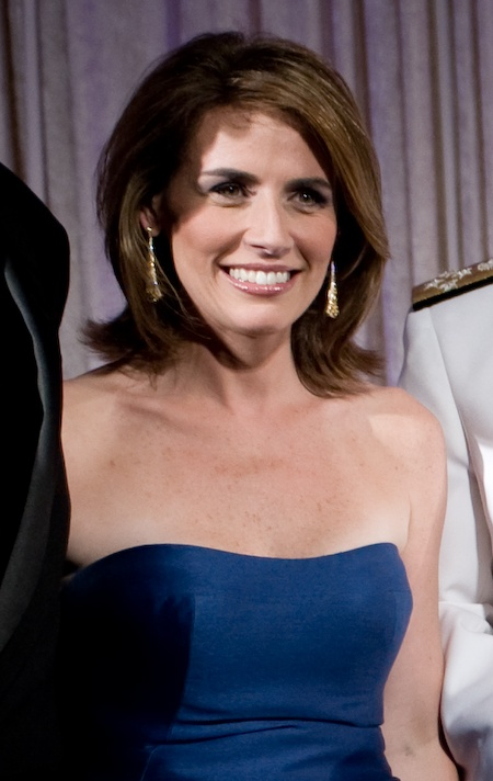 American television personality Alexis Glick, cropped from 080421-N-0696M-321 From left, U.S. Marine Corps retired Gen. James Jones, the chairman of the Atlantic Council of the United States; Alexis Glick, the vice president of Fox Business News; Chairman of the Joint Chiefs of Staff Navy Adm. Mike Mullen; former British Prime Minister Tony Blair; Rupert Murdoch, the chairman and managing director of News Corporation; and Evgeny Kissin, an international pianist; pose for a photo at the conclusion of the Atlantic Council of the United States Distinguished Leadership Award Gala in Washington, D.C., April 21, 2008. Mullen, Murdoch, Blair and Kissin all received the award during the gala. The council promotes constructive U.S. leadership and engagement in international affairs based on the central role of the Atlantic community in meeting challenges of the 21st century. DoD photo by Mass Communication Specialist 1st Class Chad J. McNeeley, U.S. Navy. (Released)